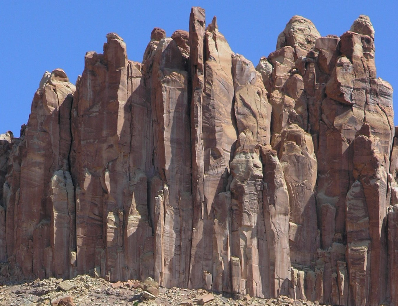 Photo taken by Daniel Mayer in late June 2005.